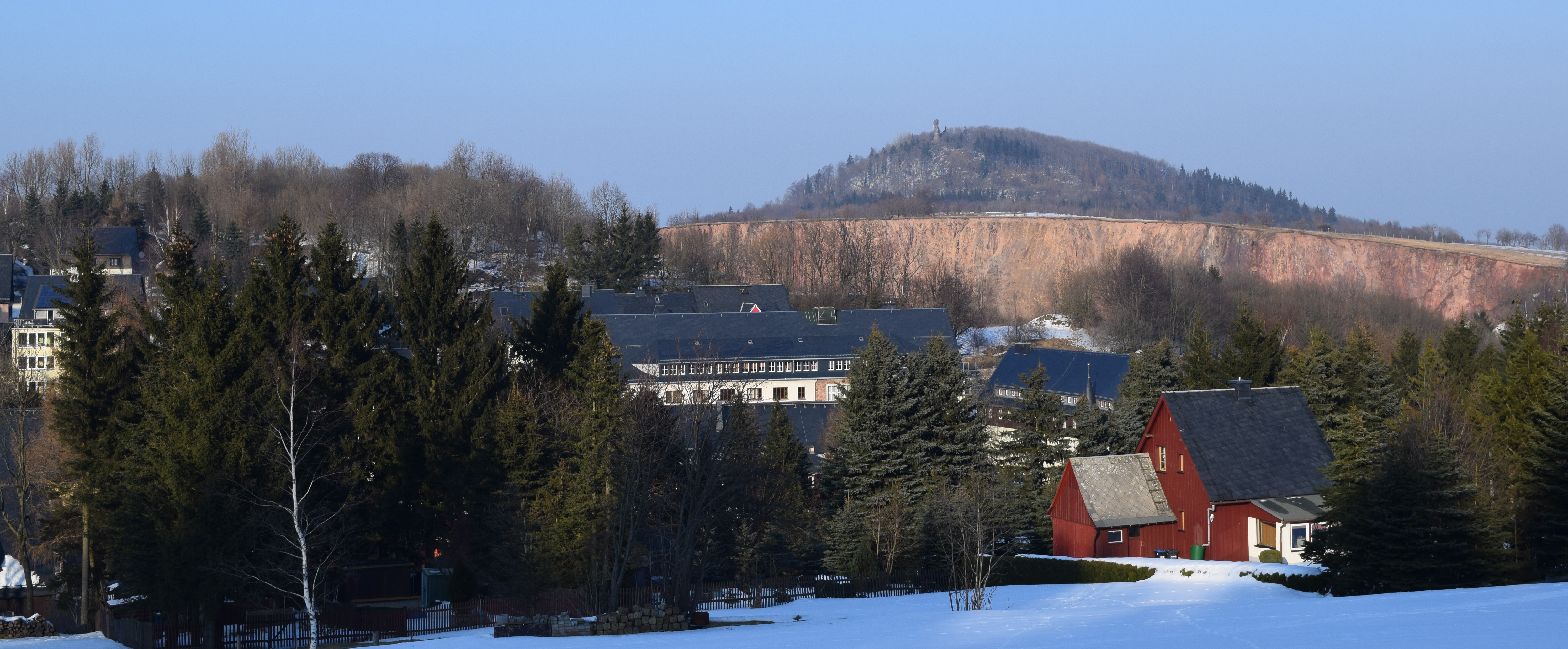 Altenberg (Panorama II)